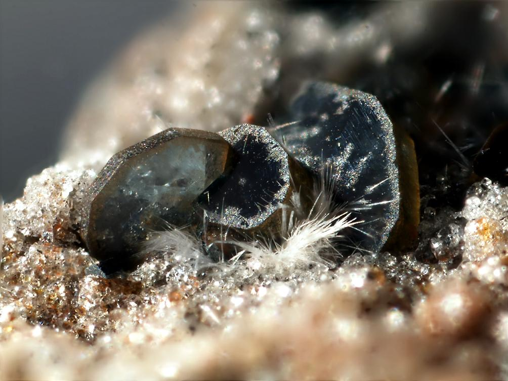 Thick Osumilite tabulars, together with Mullite, image width: 1.,5 mm - Locality: Wannenköpfe, Ochtendung, Eifel region, Germany